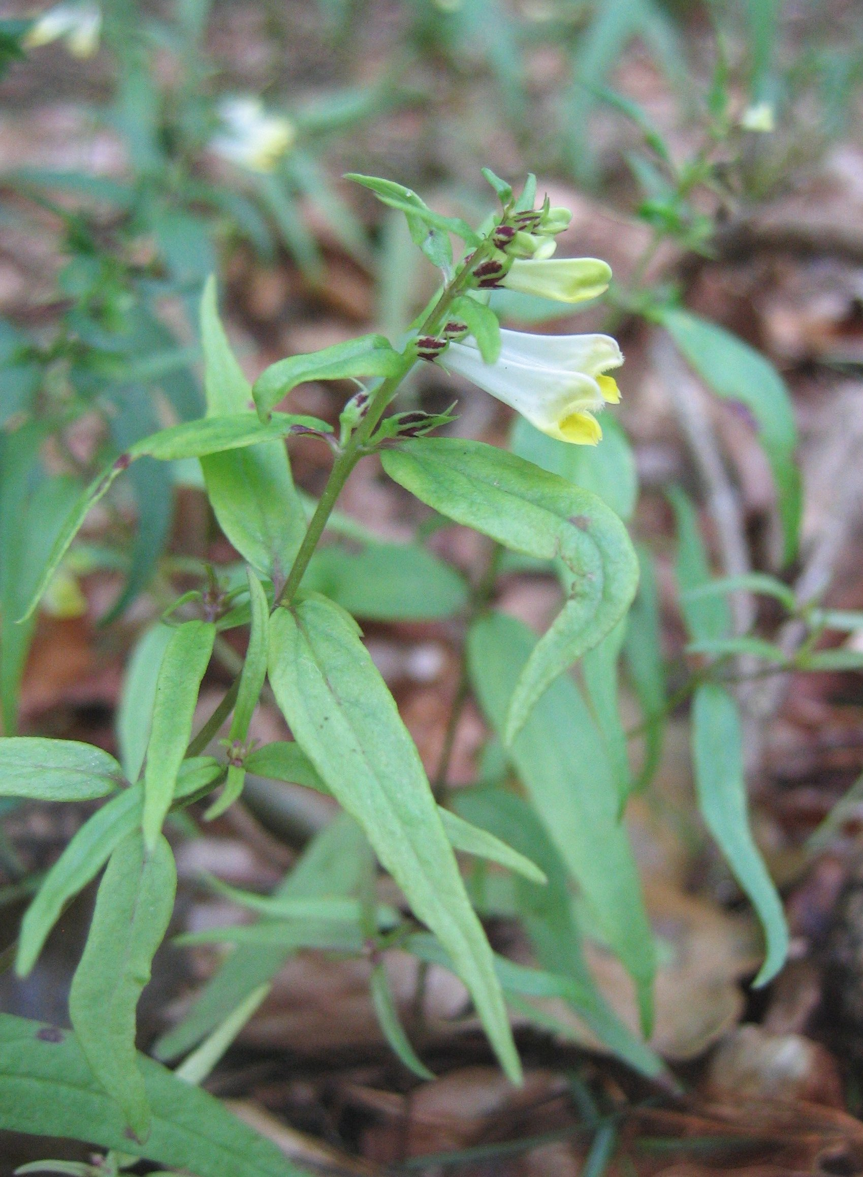 Melampyrum pratense in Łazy, Poland.